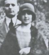 Salim Ali Salam with King Faisal I of Iraq in Richmond Park in London in 1925, along with Salim's son Saeb and daughters Anbara and Rasha. Anbara can be seen wearing an elegant cloche hat and a mid-calf skirt, in defiance of social conventions.